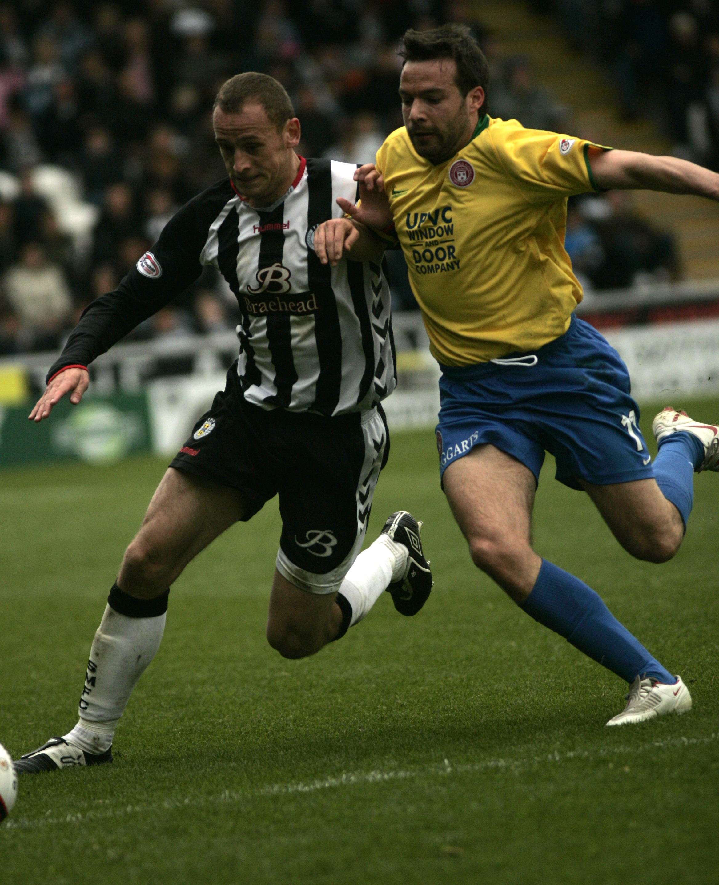 Tussle with Mark Corcoran